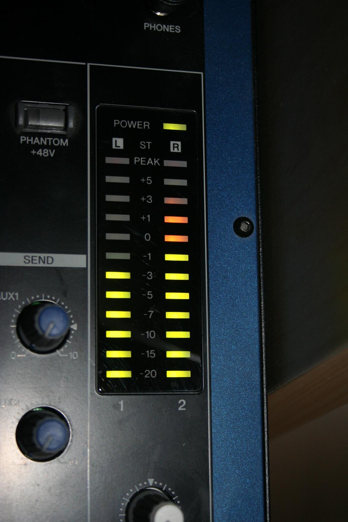 Led PEAK-meter.